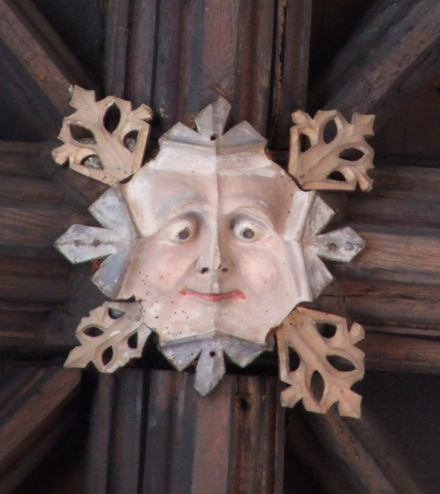 Decorative boss (19th century?) in shape of face on 16th century roof, church of St Helen Witton, Northwich.